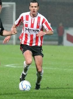 Ciaran Martyn. Cropped personal photo.